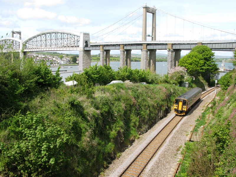 First Great Western 153382 with a Gunnislake to Plymouth service on on the Tamar Valley Line at St Budeaux. It has just passed beneath the Tamar Bridge (which carries the A38 road) and the Royal Albert Bridge (which carries the Cornish main Line railway).